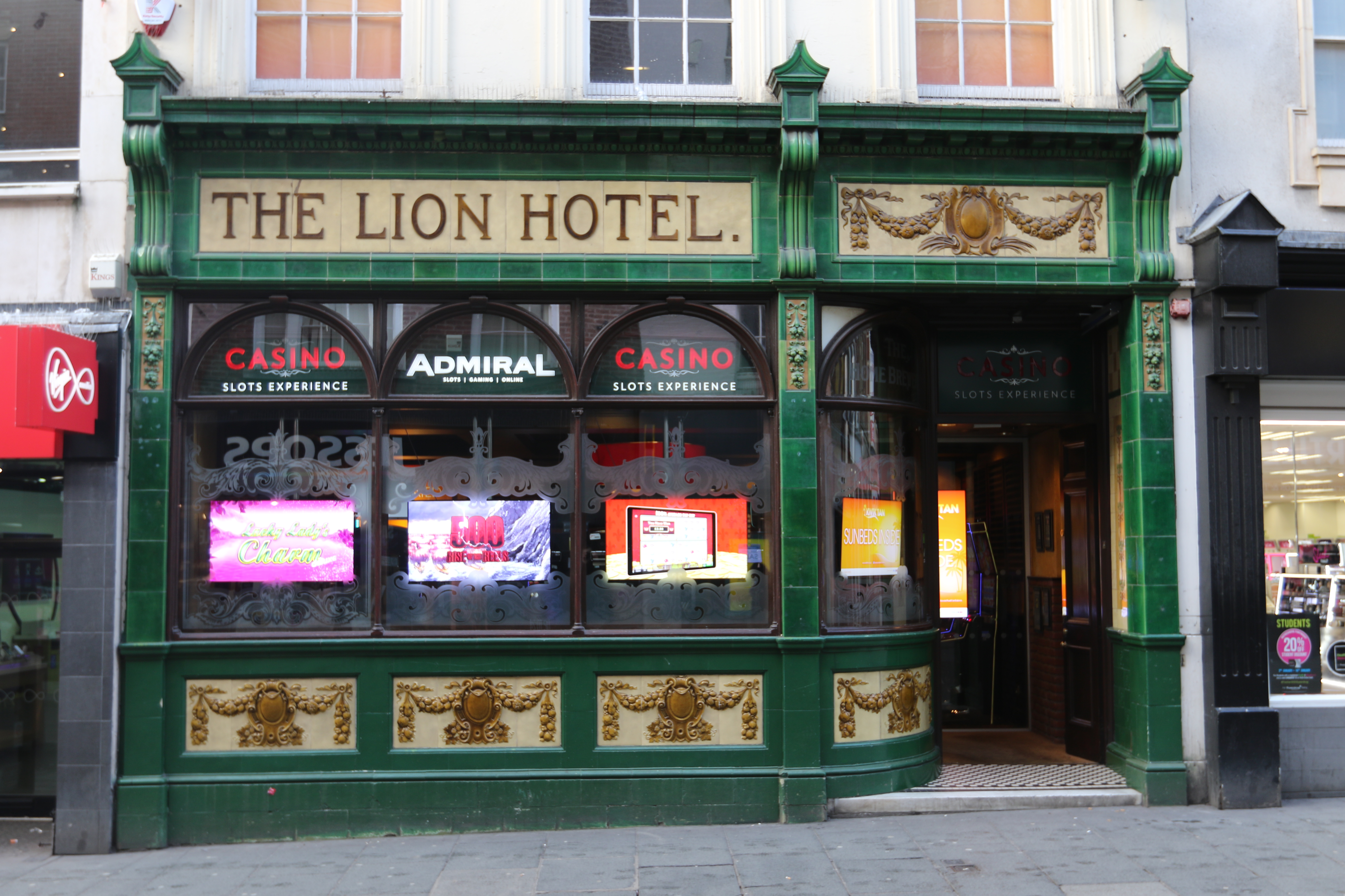 Dating from ca. 1730, remodelled in 1846. Green glazed tile frontage from 1910 by Frederick Ball